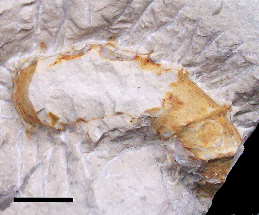 Relatively small and damaged fragment of a mould of the corkscrew-like curled ammonite Hyphantoceras reussianum (Ancyloceratidae) from the upper Turonian (Upper Cretaceous) of the Salzgitter-Salder limestone quarry, southern Lower Saxony, central Germany. Scale bar: 1 cm.